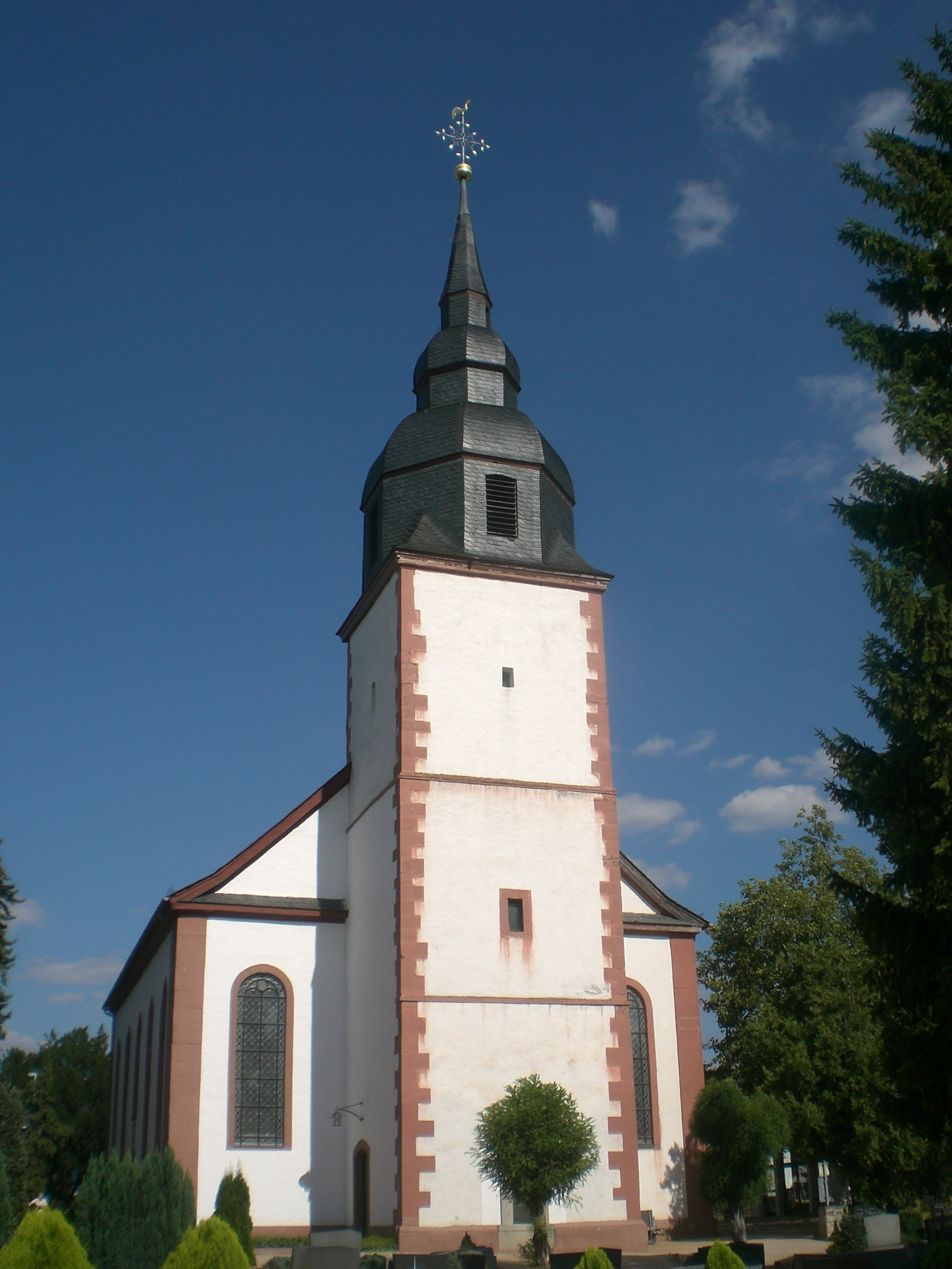 The lutheran church in Biebesheim, Hesse, Germany